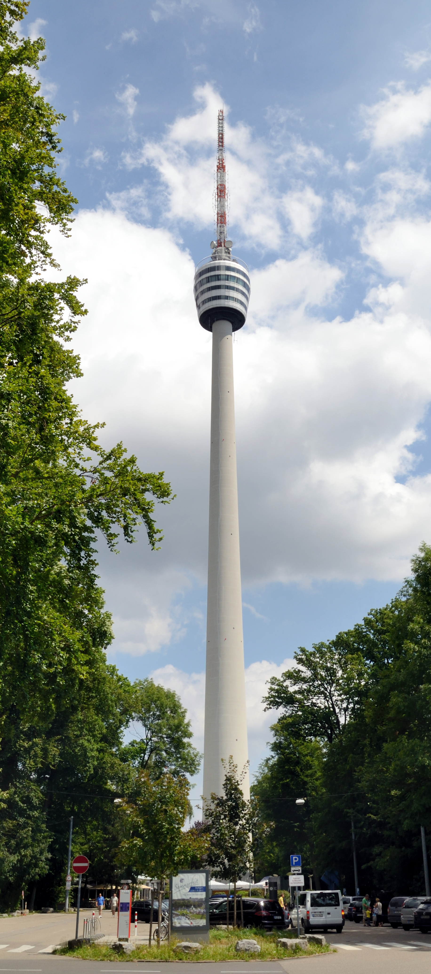 Television Tower Stuttgart